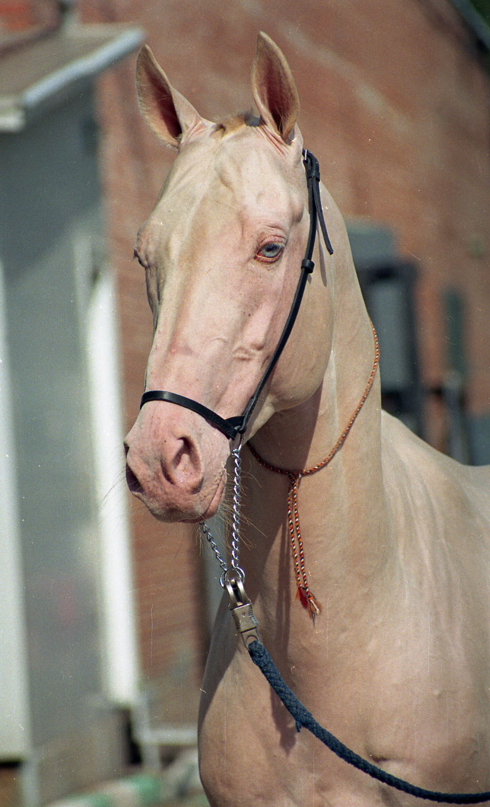 Blue-eyed cream Akhalteke horse